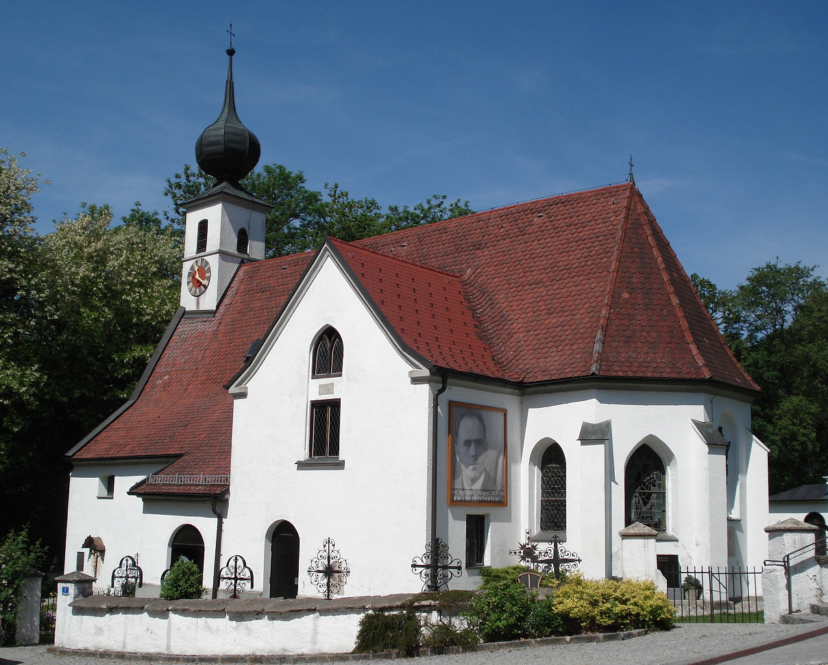 Sankt Radegund (Austria), parish church